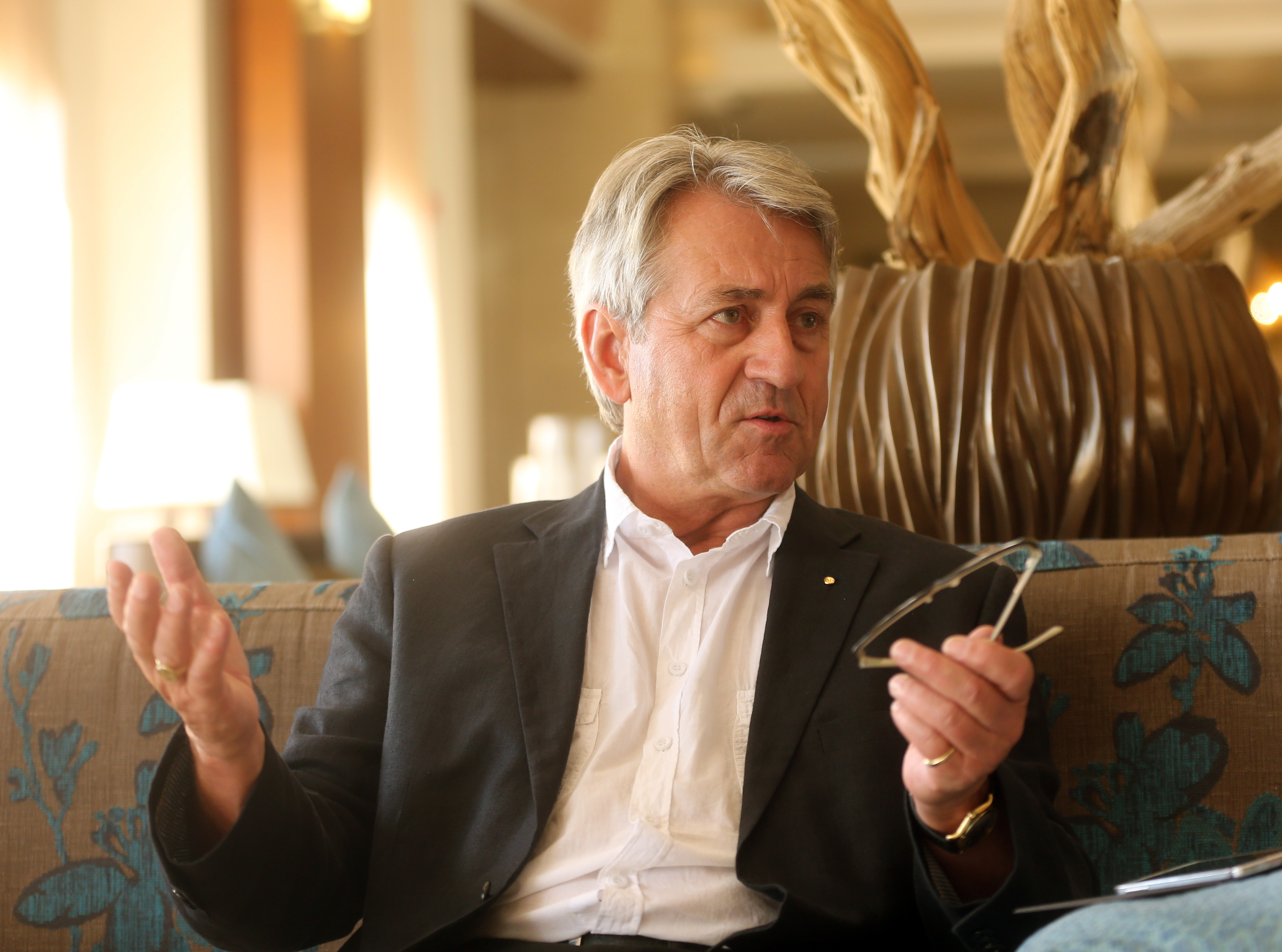 International Modern Pentathlon Union (UIPM) President Klaus Schormann during an informal media interaction in Doha.